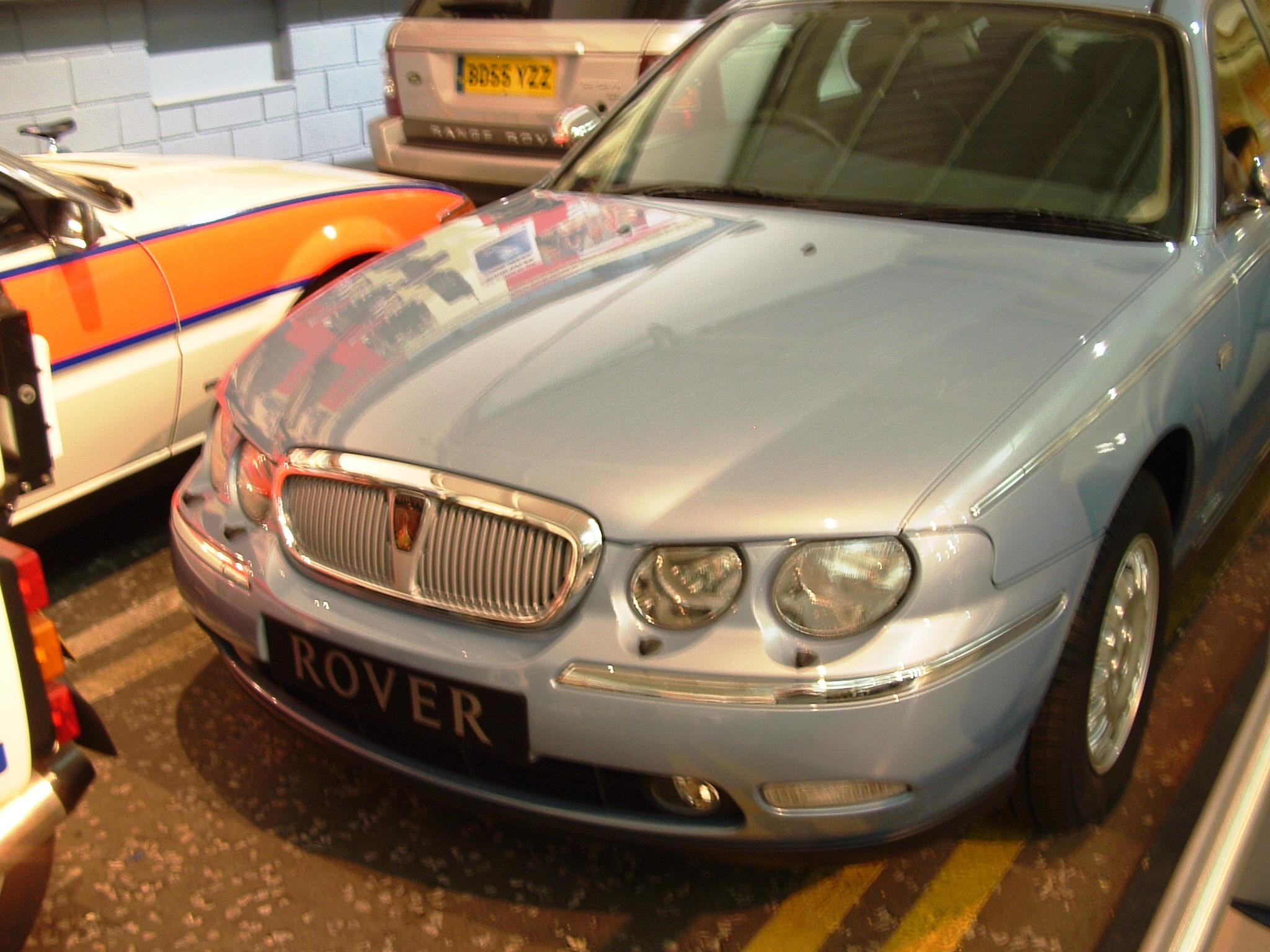 First Rover 75 off the production line, part of the Motor Heritage Museum's collection